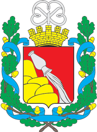 Voronezh oblast, coat of arms (1997)